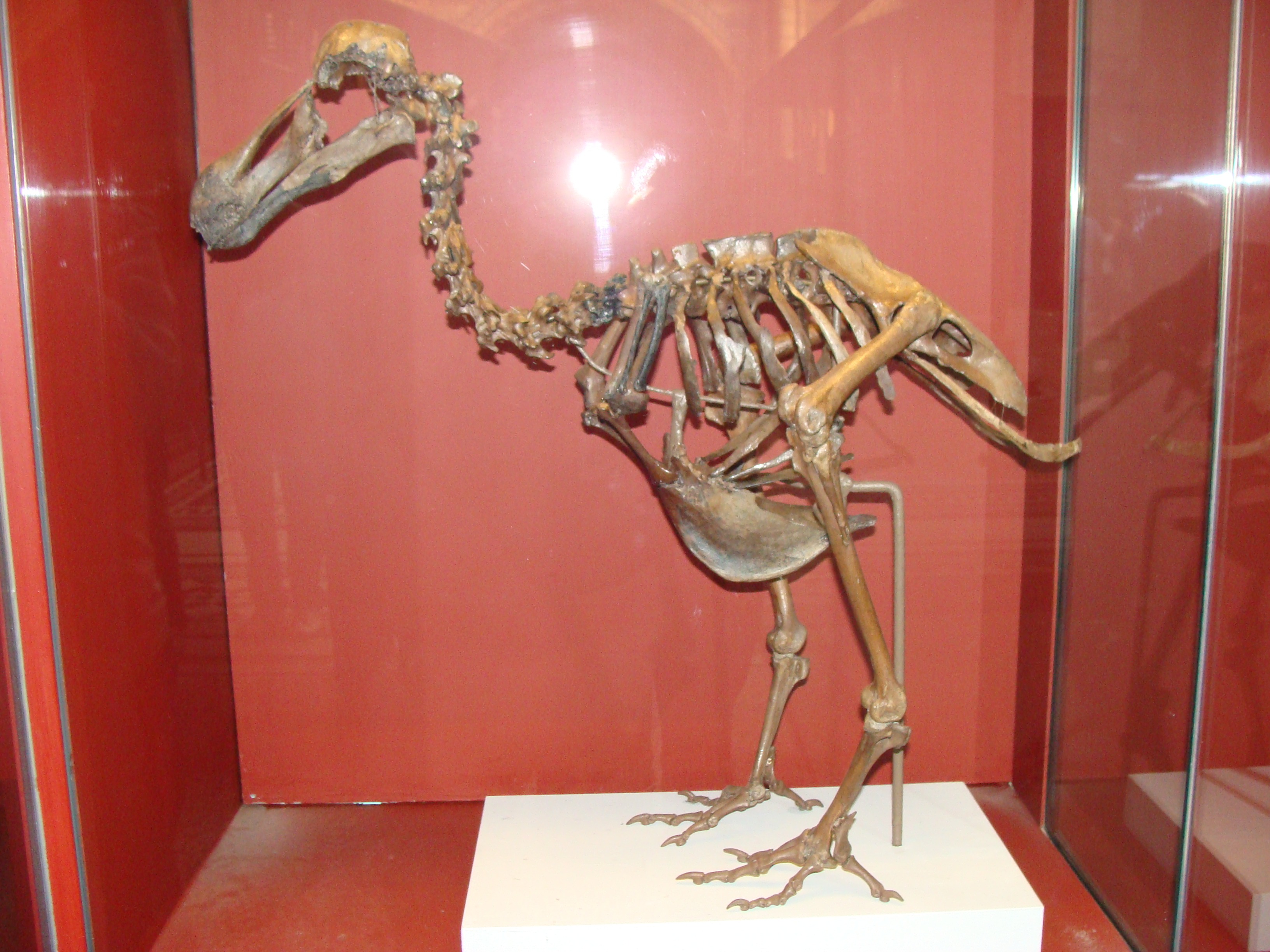 Raphus cucullatus (Dodo) in the Natural History Museum of London